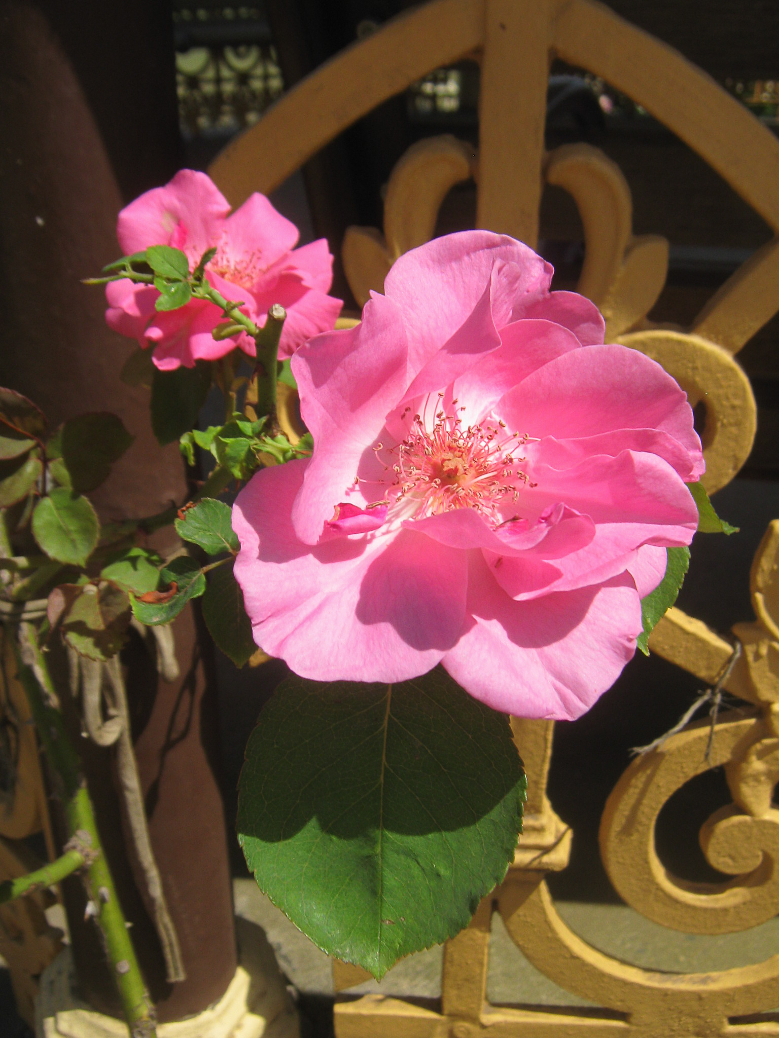 Rose "Miss Madden's Climber", climbing Hybrid Tea thought to be by Alister Clark; photographed in the Nieuwesteeg Heritage Rose Garden, Maddingley Park, Bacchus Marsh, Victoria